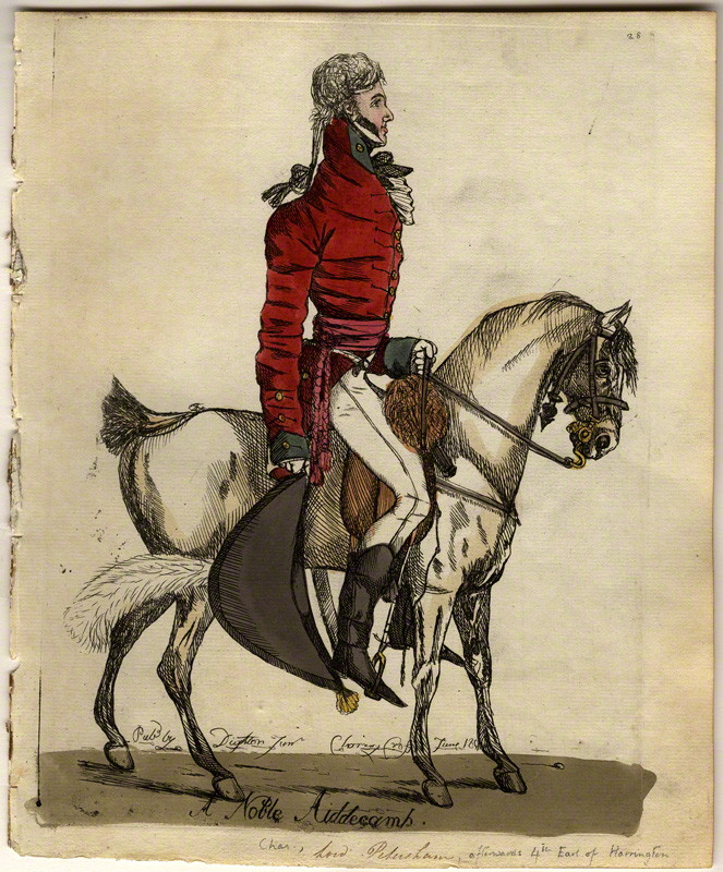 Charles Stanhope, 4th Earl of Harrington A noble aiddecamp' (Charles Stanhope, 4th Earl of Harrington) by and published by Robert Dighton Jr hand-coloured etching, published June 1804